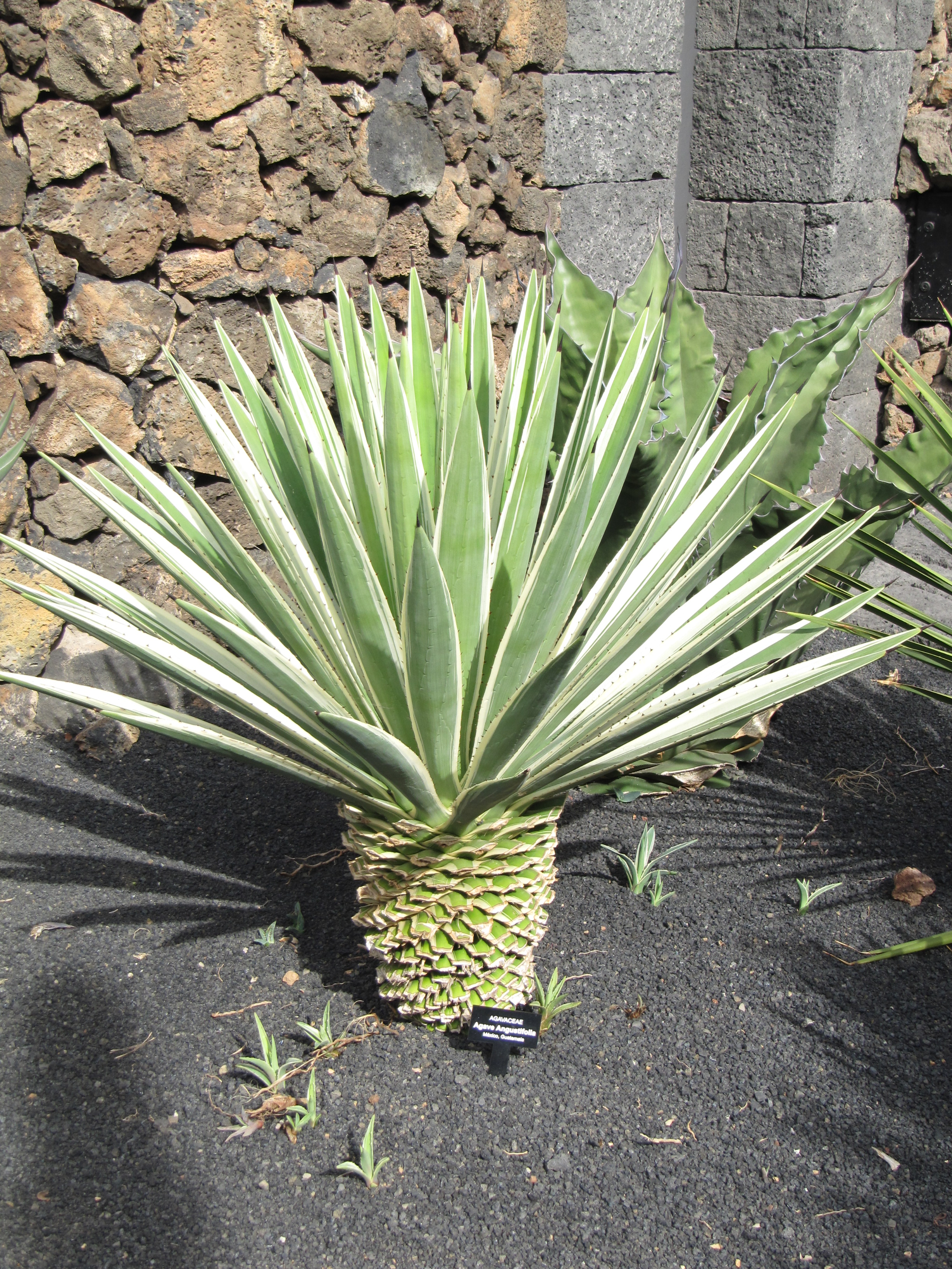 Agave angustifolia